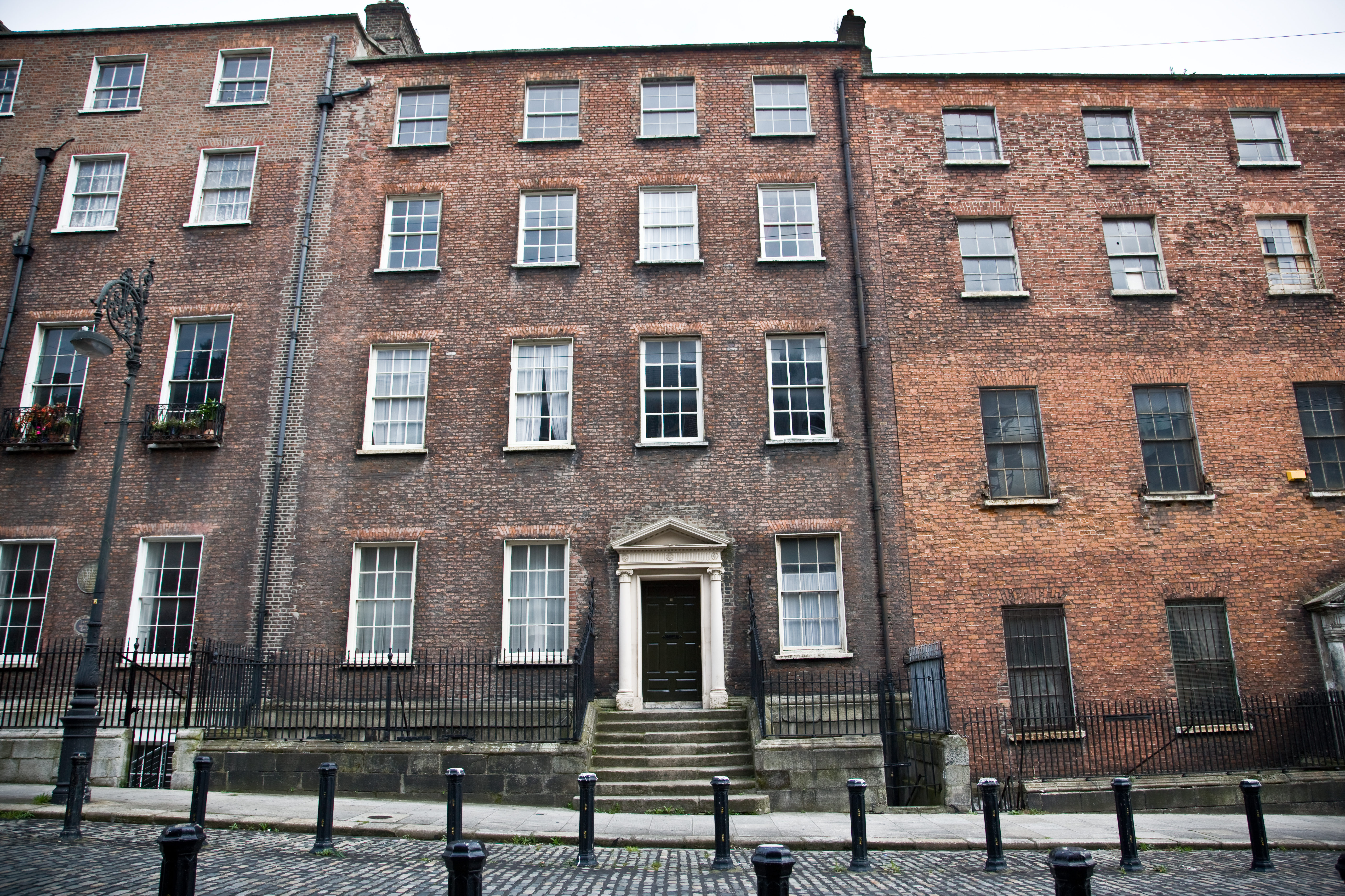 No. 4 (north-side), built by Nathaniel Clements c.1745 and first let to John Maxwell, later Baron Farnham. Henrietta Street - Dublin